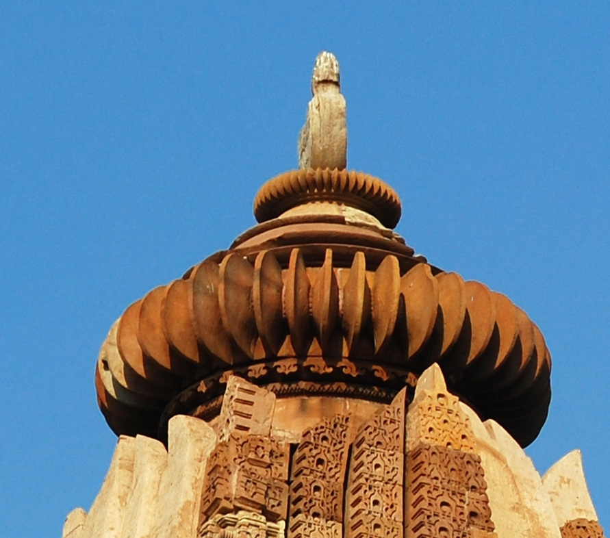 Devi Jagadambi Temple in Westen Group of Temples, Khajuraho, India.